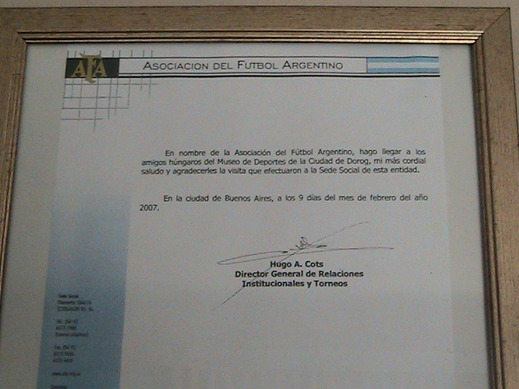 Honor from AFA